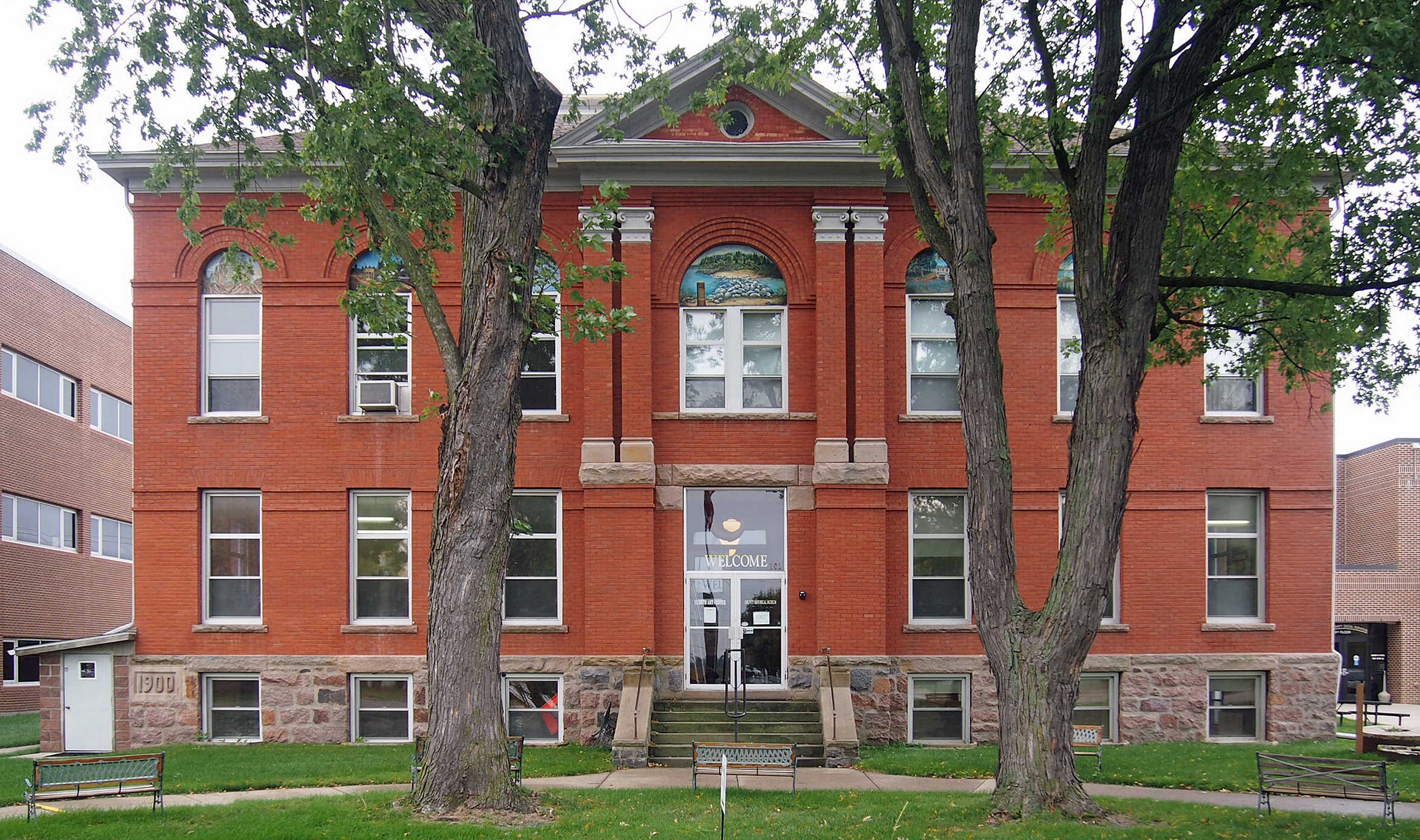 The former Hubbard County Courthouse, 301 Court Ave, Park Rapids, Minnesota, USA. Viewed from the east.